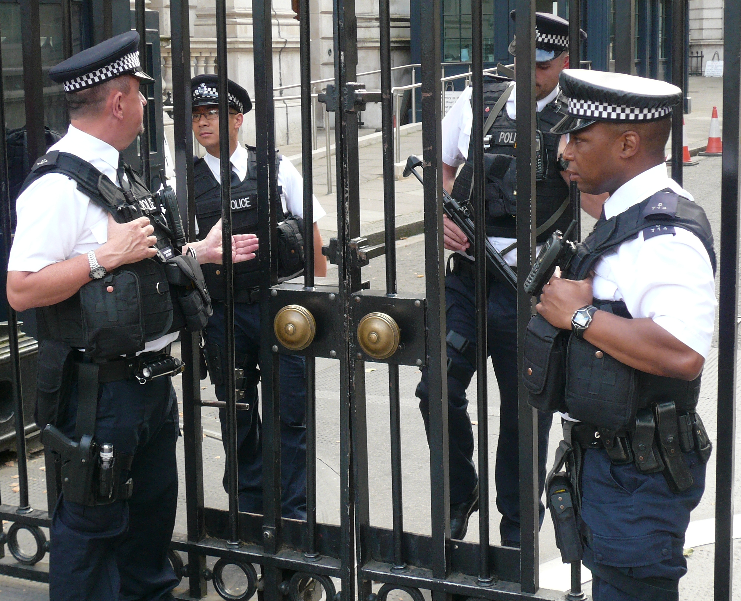 Armed police officers near Downing Street gates. London, Great Britain